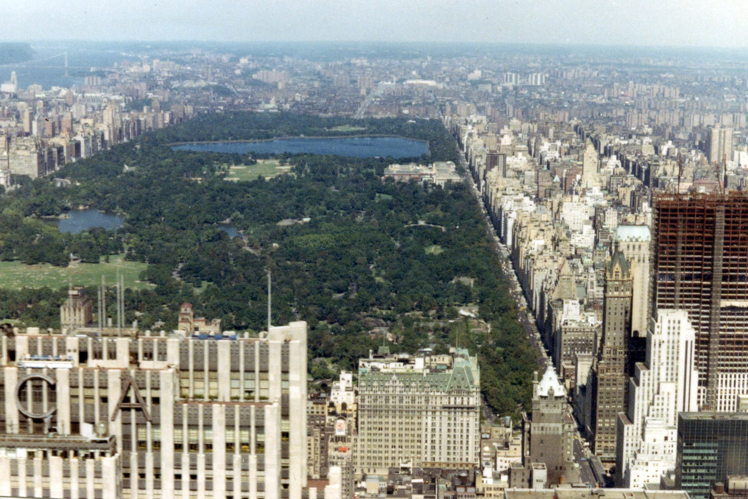 Photo taken in the afternoon, September 1, 1967